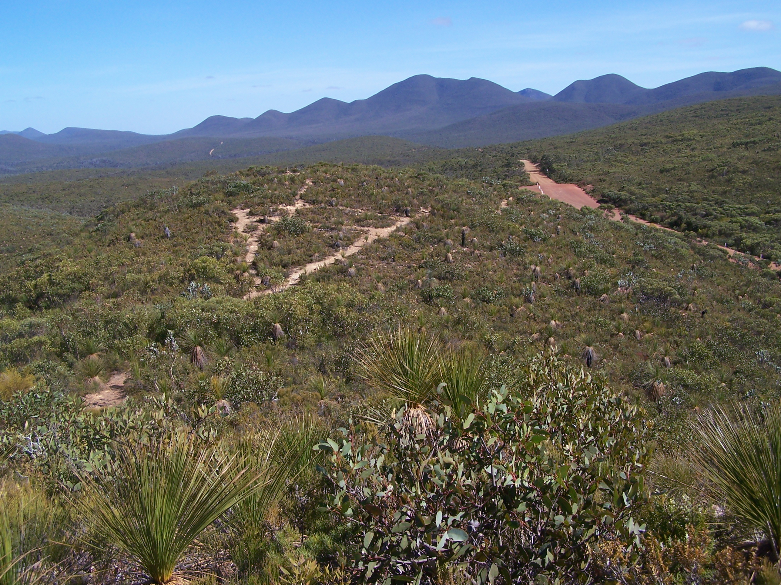 Stirling Range heath, taken from lookout in centre of ranges looking west